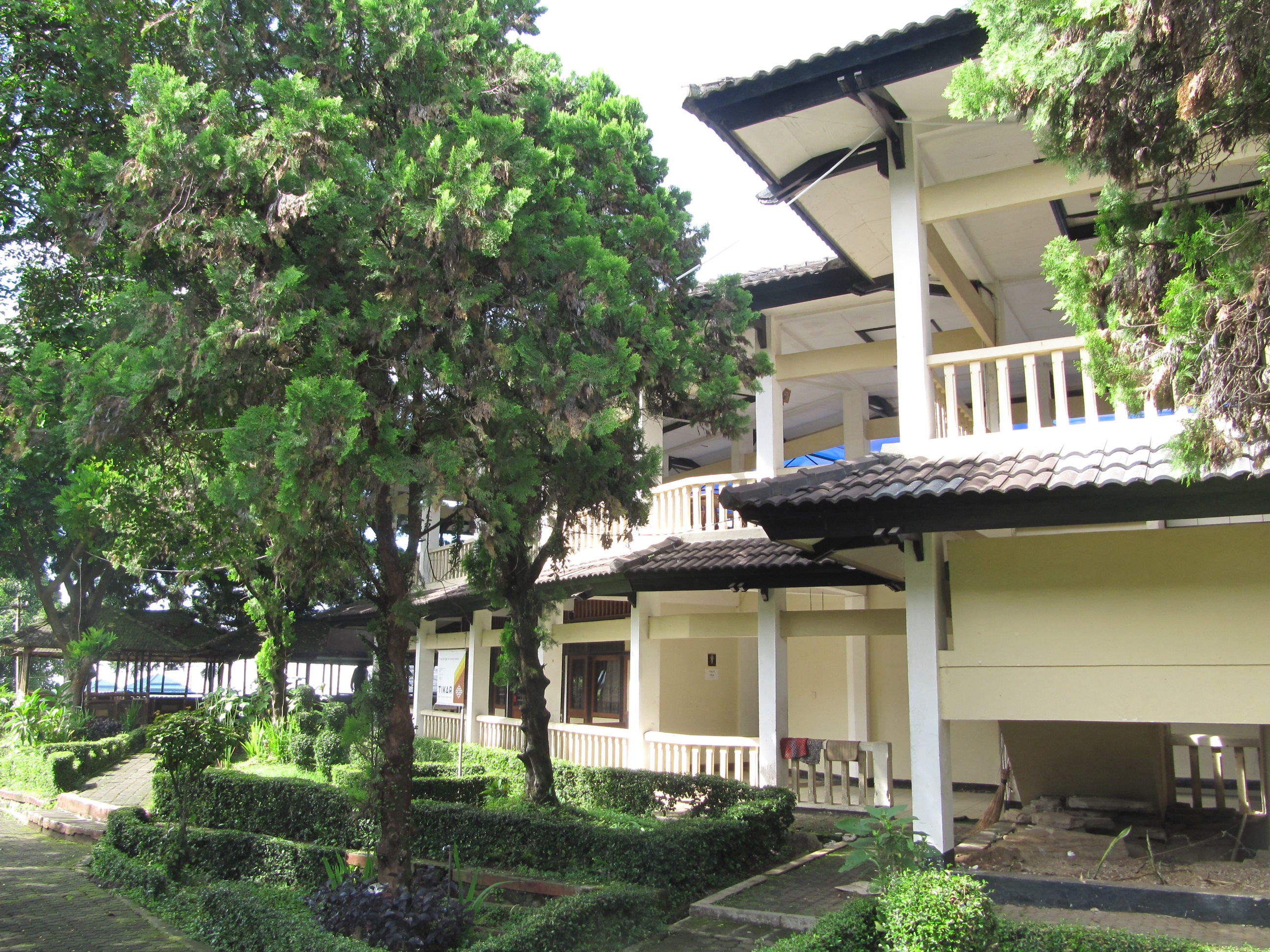 Theehuis Dago